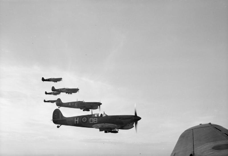 Royal Air Force- Italy, the Balkans and South-east Europe, 1942-1945. Supermarine Spitfire Mark VCs of No. 2 Squadron SAAF based at Palata, Italy, each carrying a 250-lb GP bomb beneath the fuselage, flying in loose formation along the Adriatic Coast while on a bombing mission to the Sangro River battlefront.